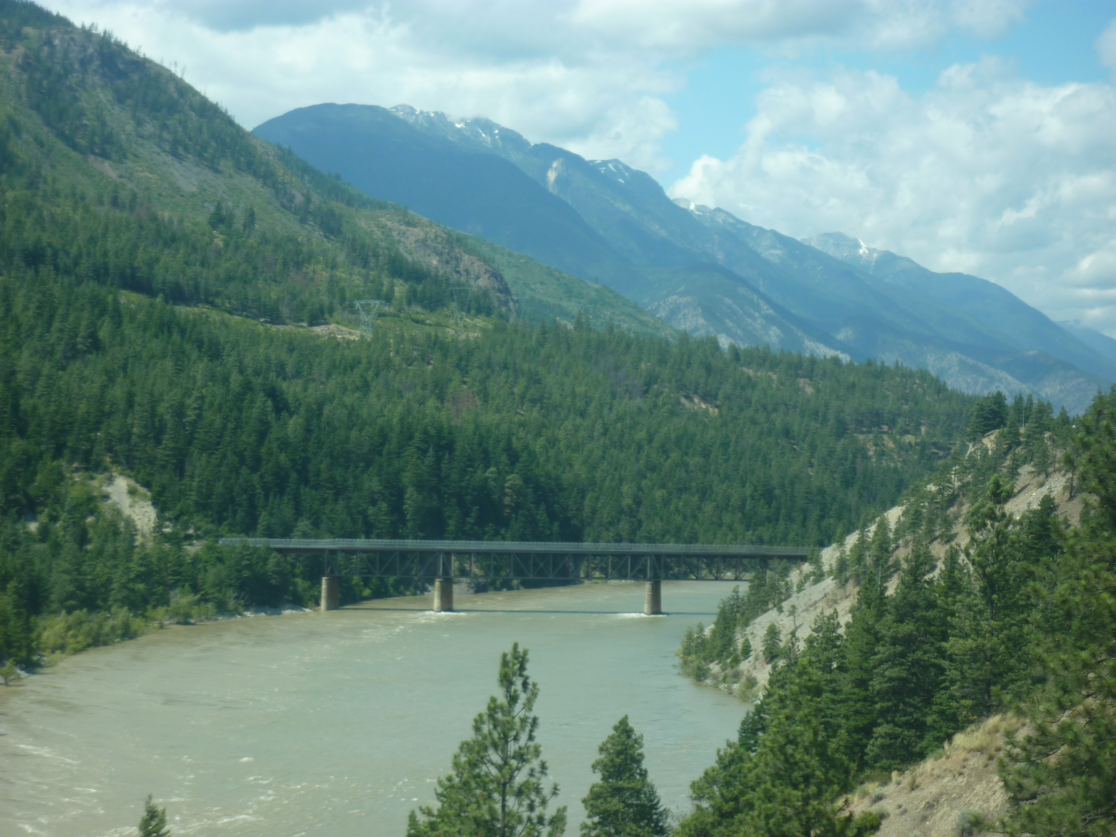 Cog Harrington Bridge between Boston Bar and North Bend in British Columbia.